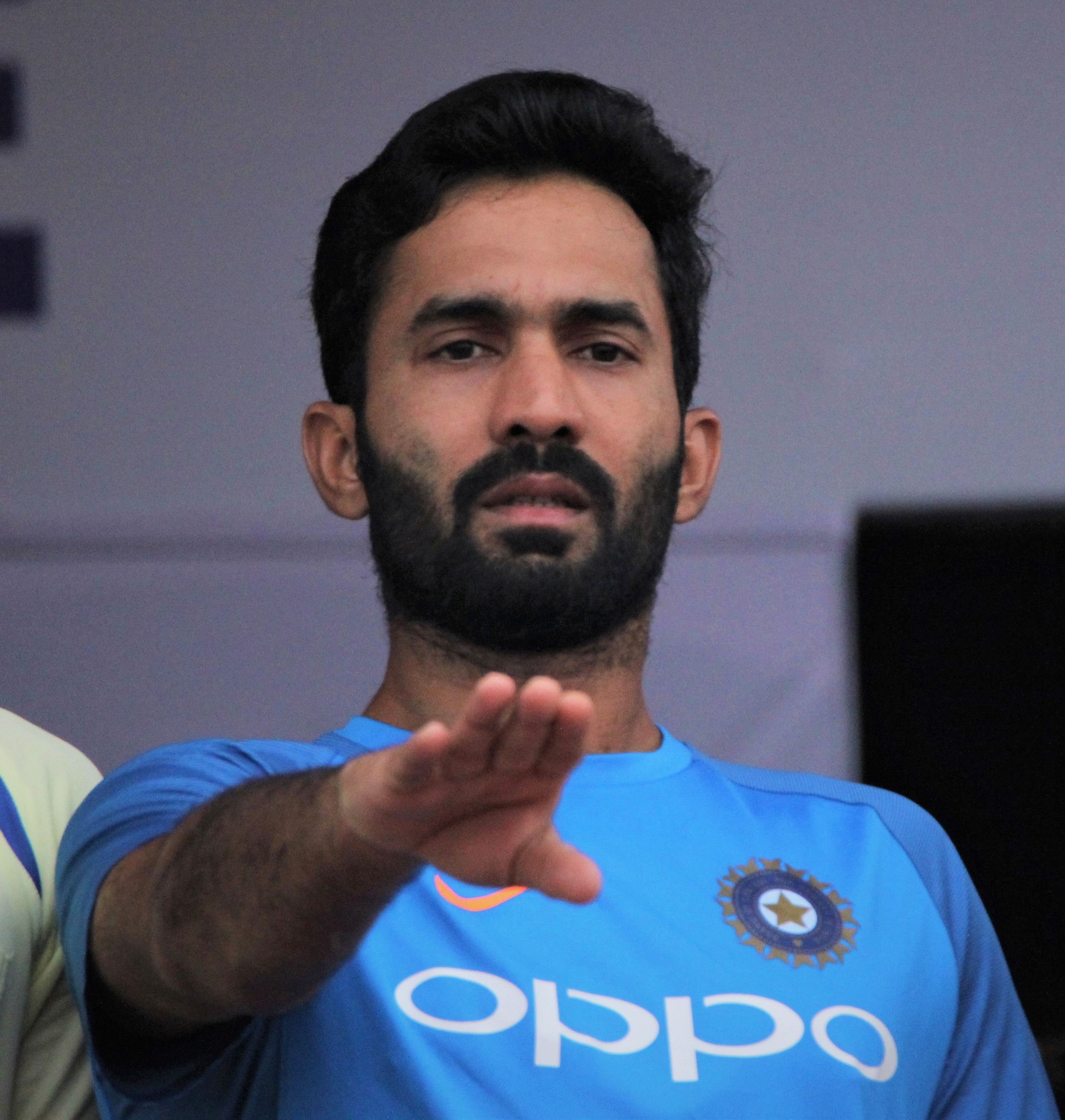 Indian international cricketer Dinesh Karthik.